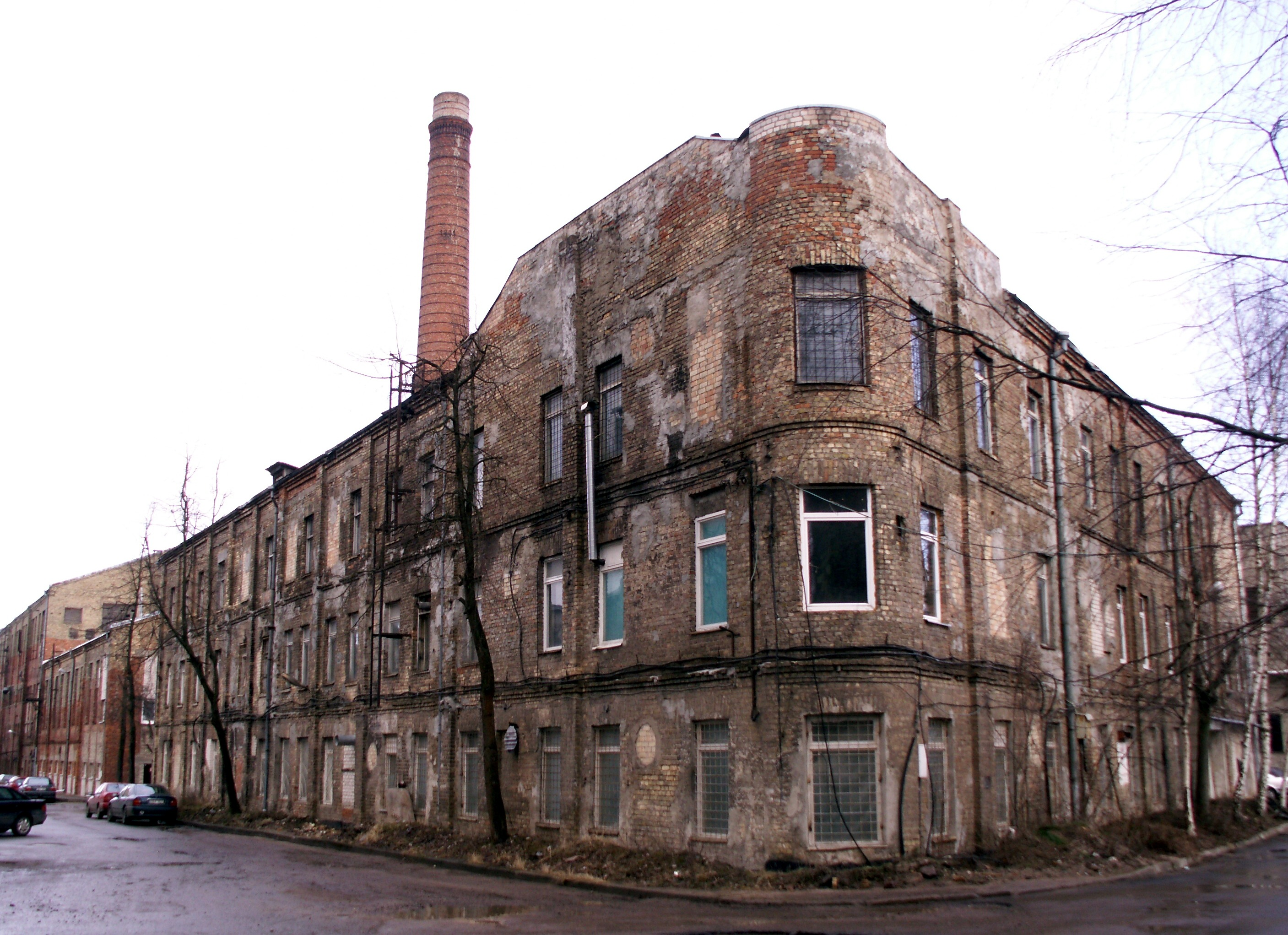 Former Chaimas Frenkelis tannery in Šiauliai